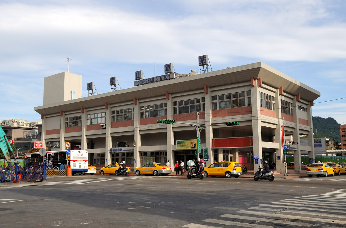 Temporary station of Songshan Station, Taiwan Railway Administration.